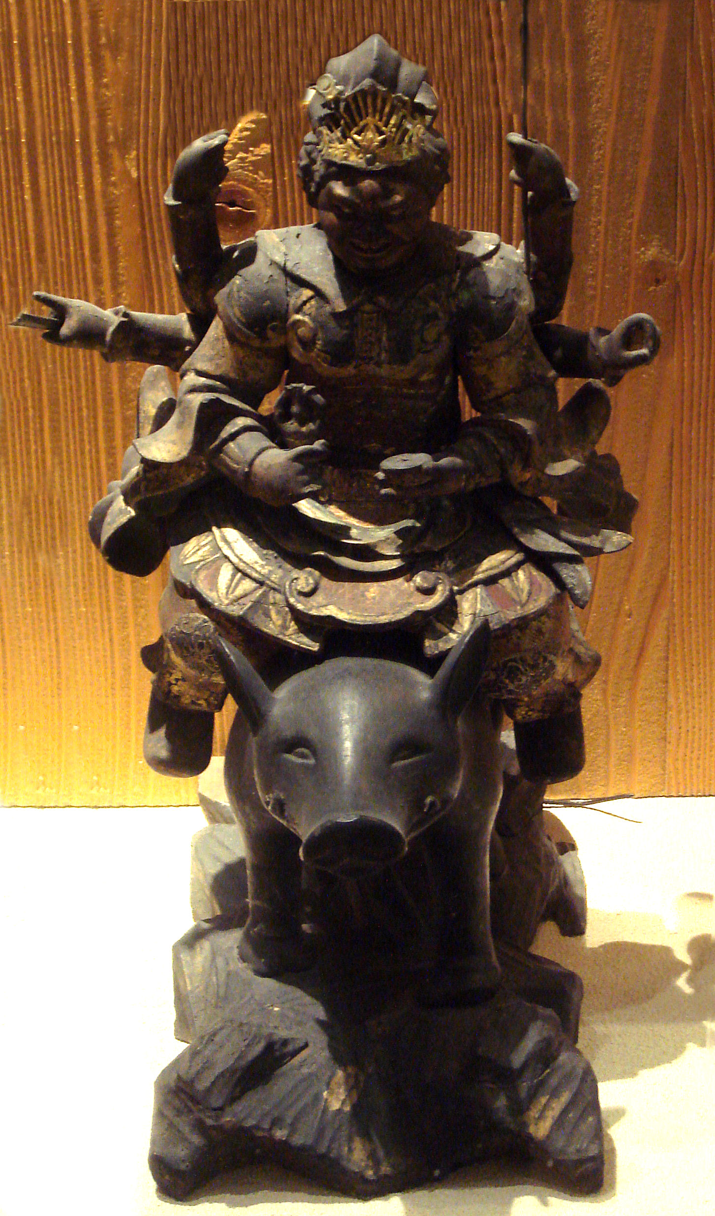 Marishi_multiarmed_on_one_boar